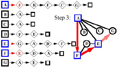 Dry run Depth-first search Algorithm in Graph, step 3